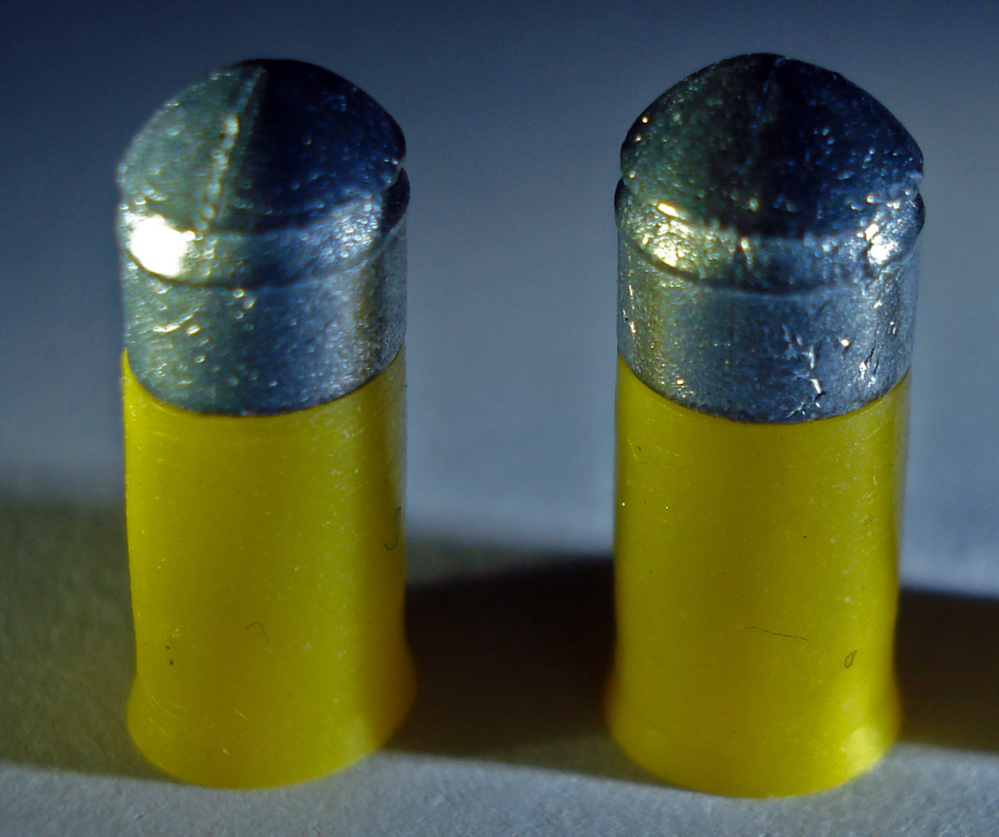 Pellet for an Air gun. Cal. 4,5mm (.177). Plastic coated with a core of hard metal. For hunting purposes.